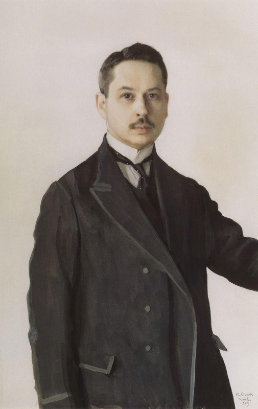 in a private collection